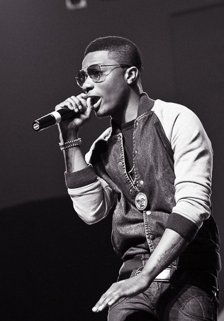 Wizkid performing at the Iyanya vs. Desire album launch concert in 2013